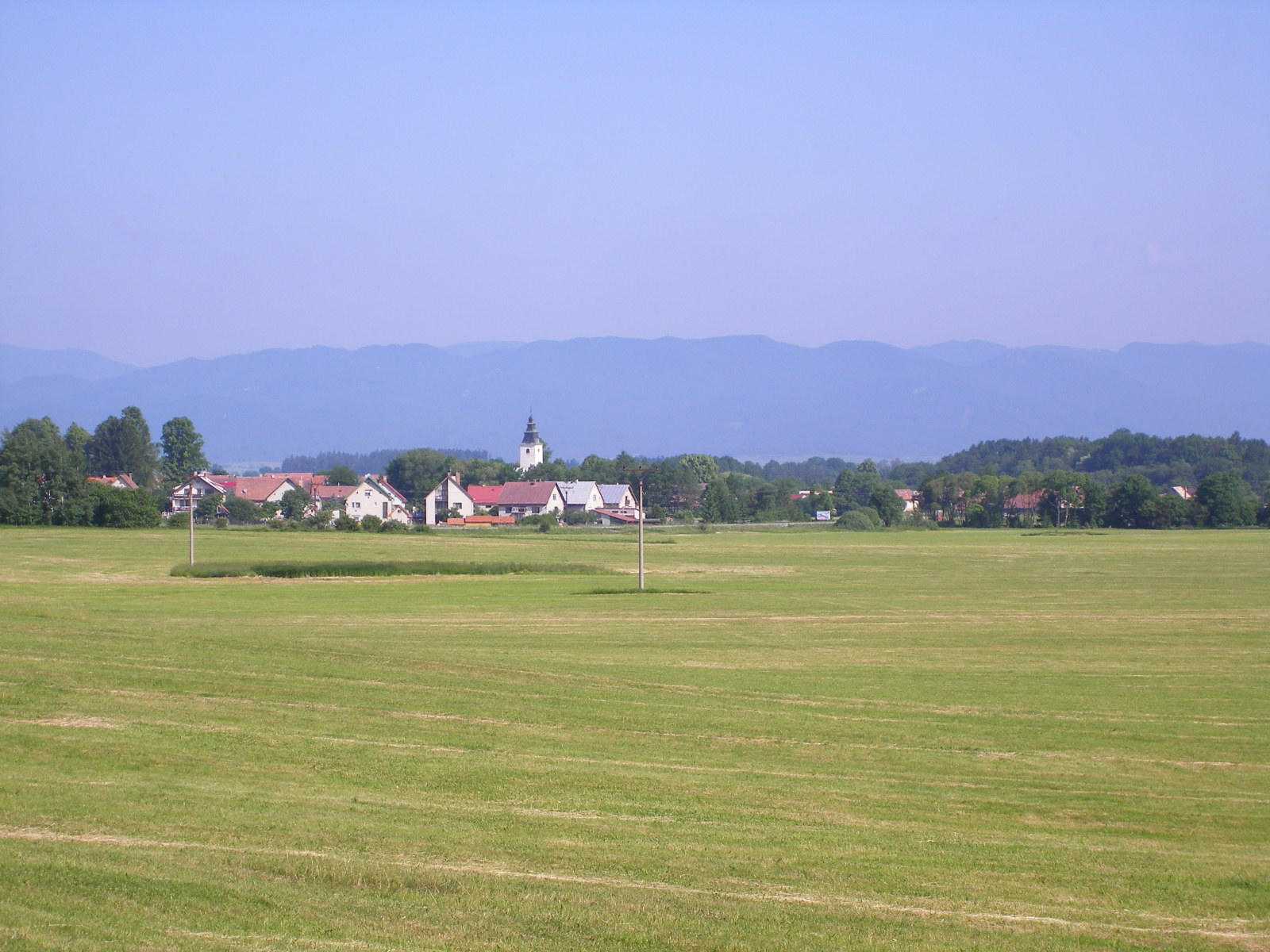 Dolná Štubňa (Turčianske Teplice) - general view from south